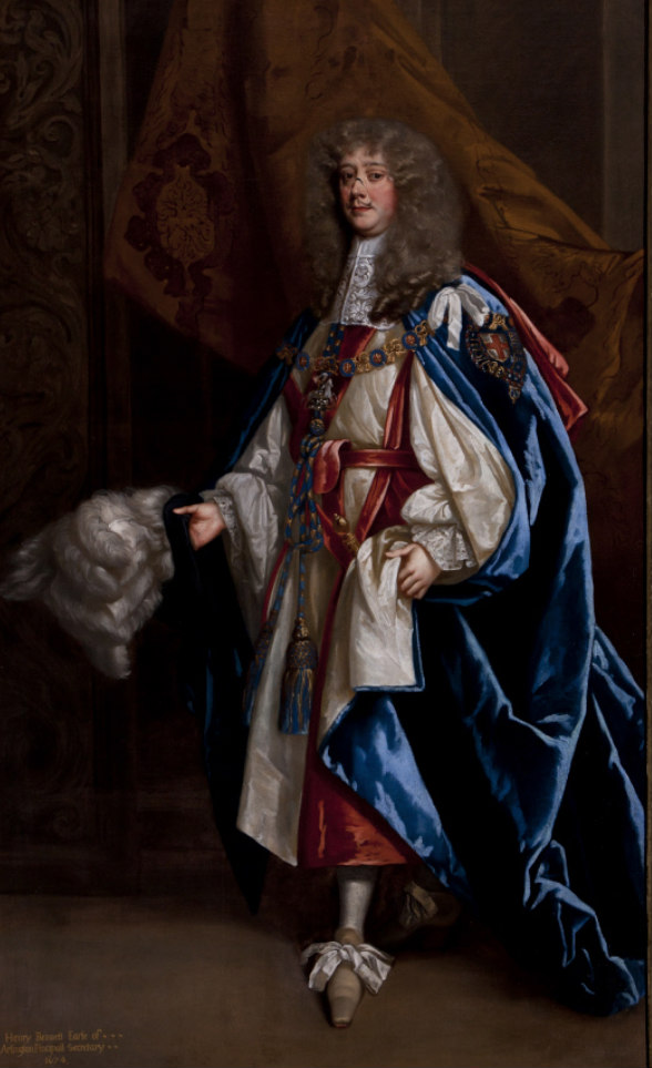 Portrait of Henry Bennet, 1st Earl of Arlington (1618-1685)